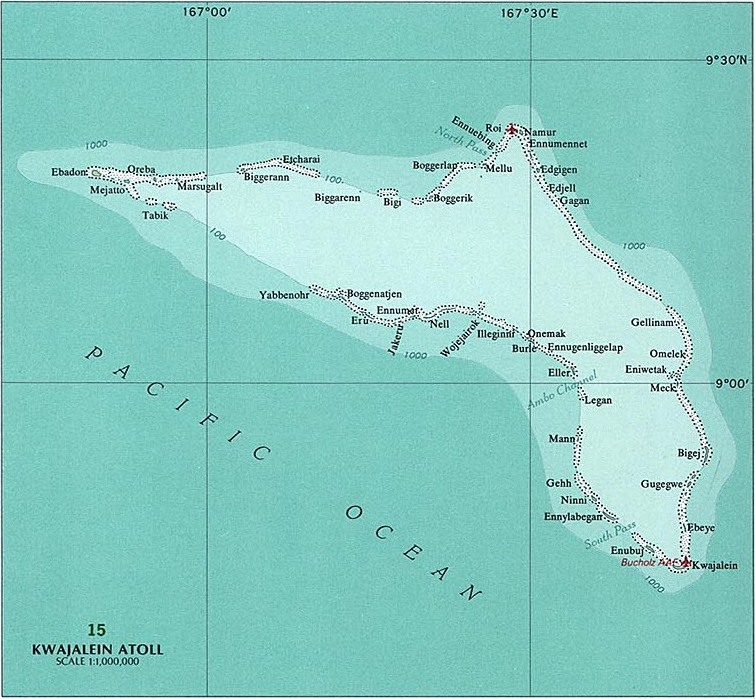 National Atlas of the United States, page "Pacific Outlying Areas", with map insets: Kwajalein Atoll